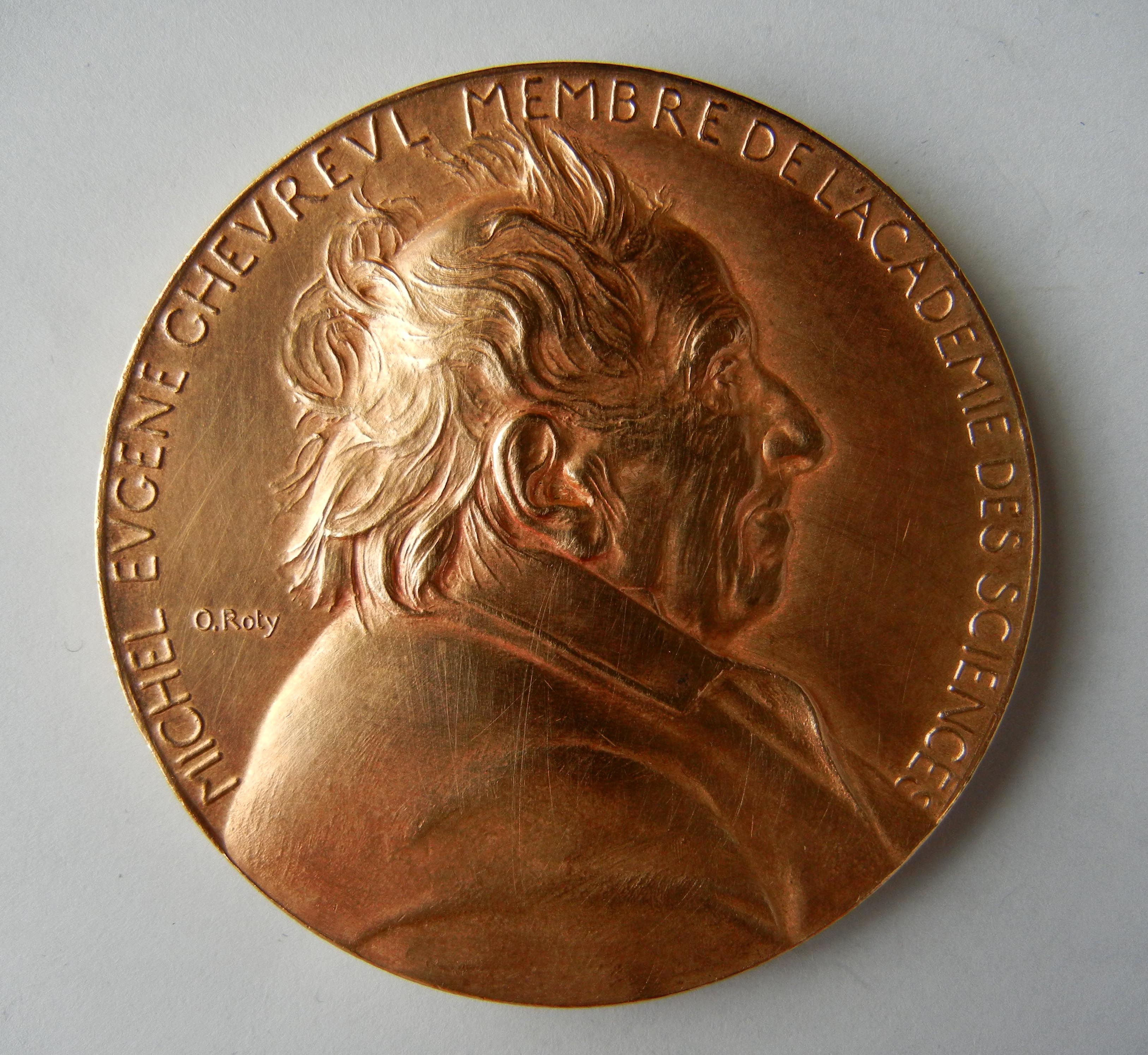 Medal Centennial (31 August 1780 -31 August 1880) was born Michel Eugène Chevreul (1780 – 1889) French chemist , Member of the Academy of Sciences French youth to the dean of students. bronze Diameter 69 mm, weight 140 grams